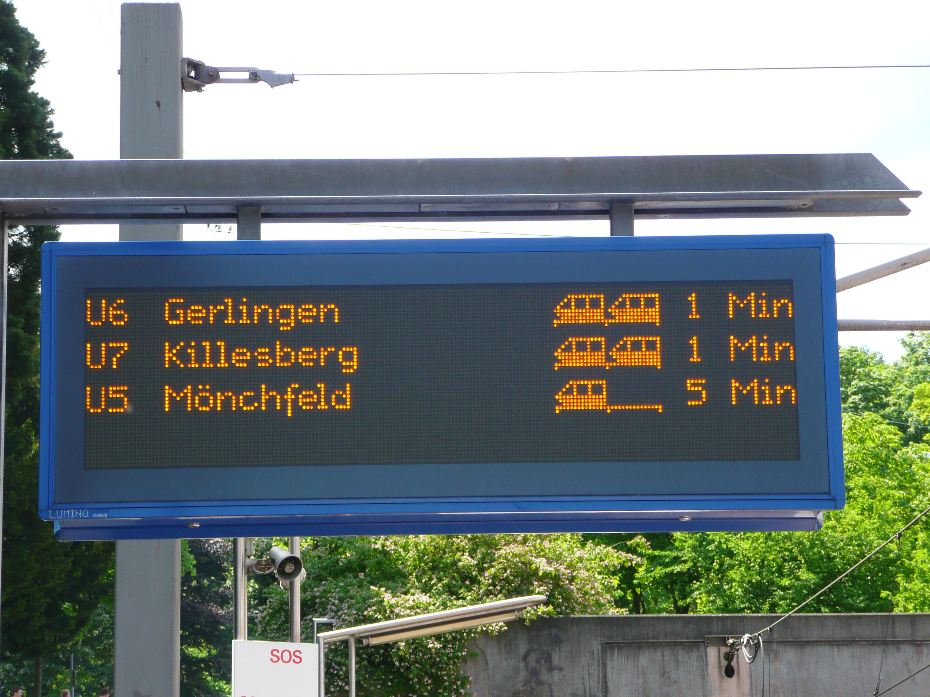 This sign advises passengers how soon the next few light rail services will be, their route numbers, destinations and whether formed of a single or double / twin units. Seen in Stuttgart, Germany.